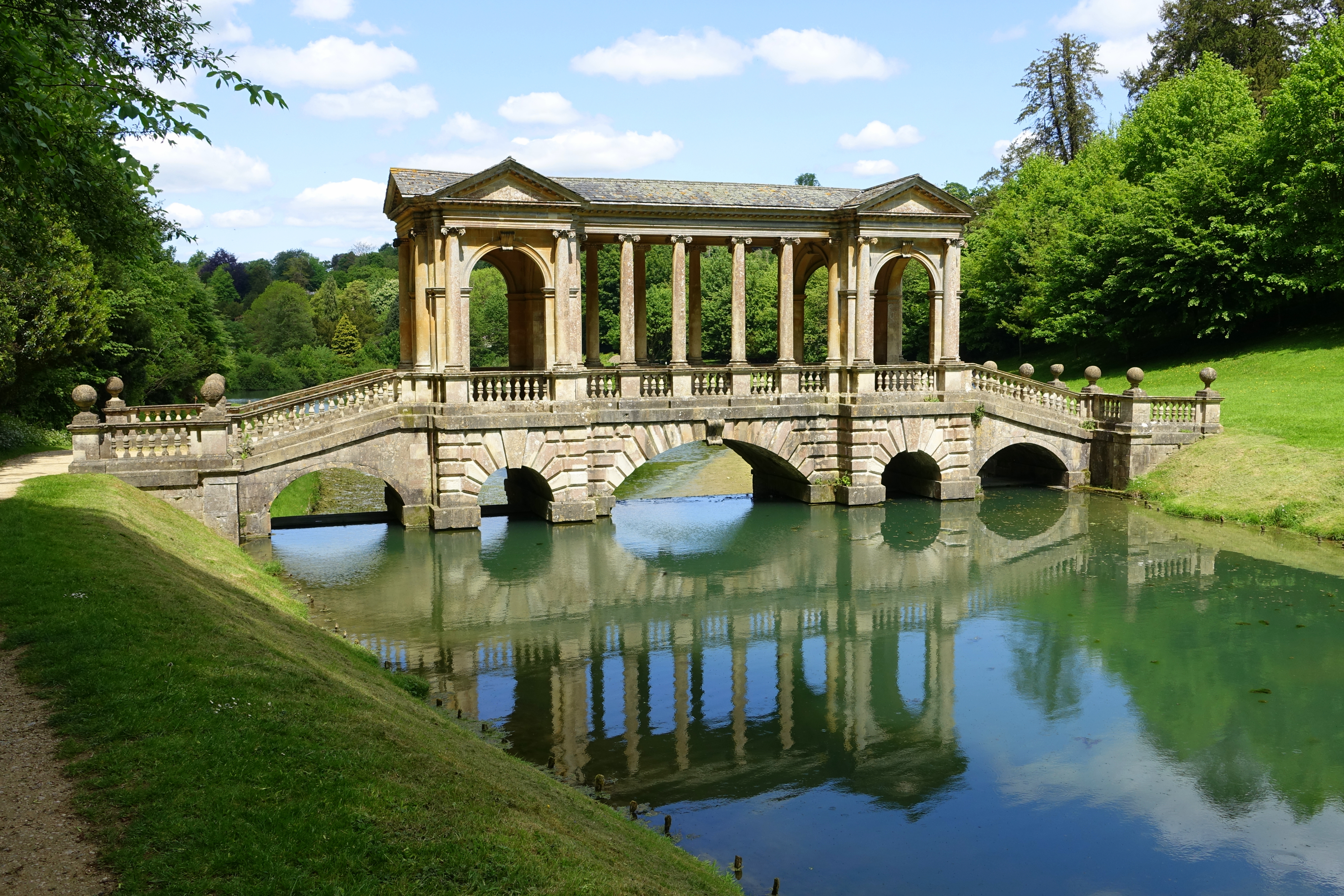 Palladian Bridge, Prior Park - Bath, England.